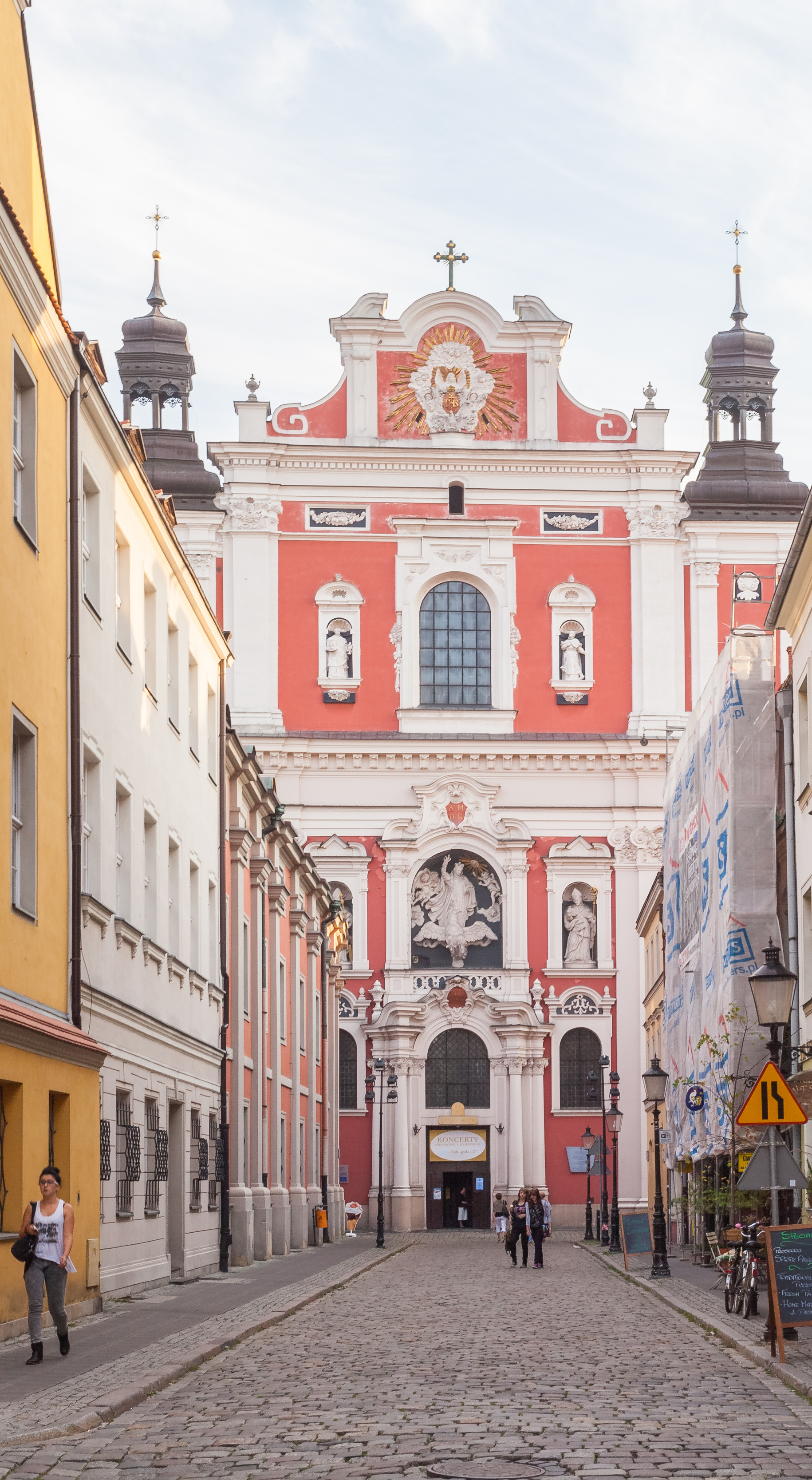 Collegiate church, Poznań, Poland